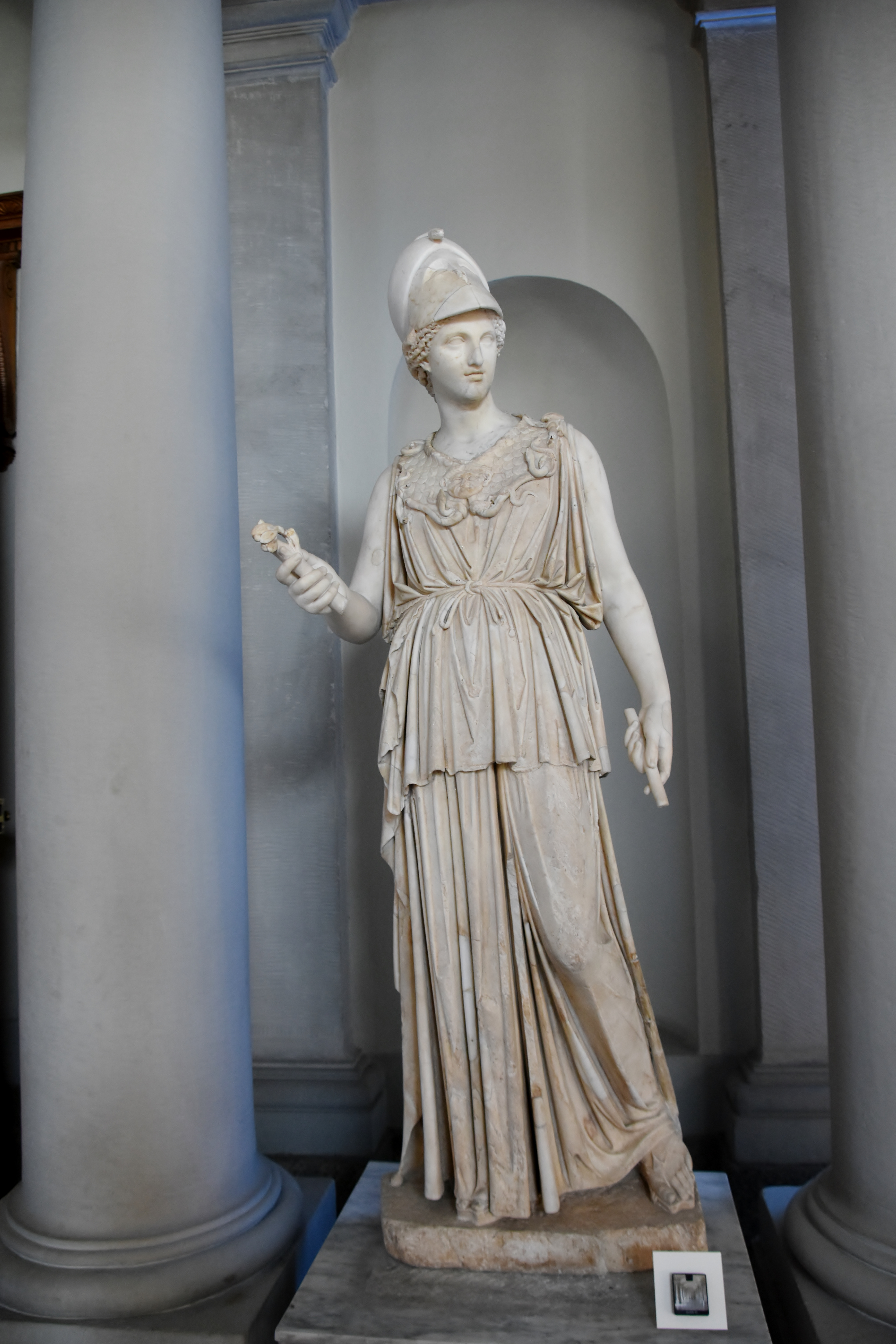 Gustav III's Museum of Antiquities, Stockholm (1)